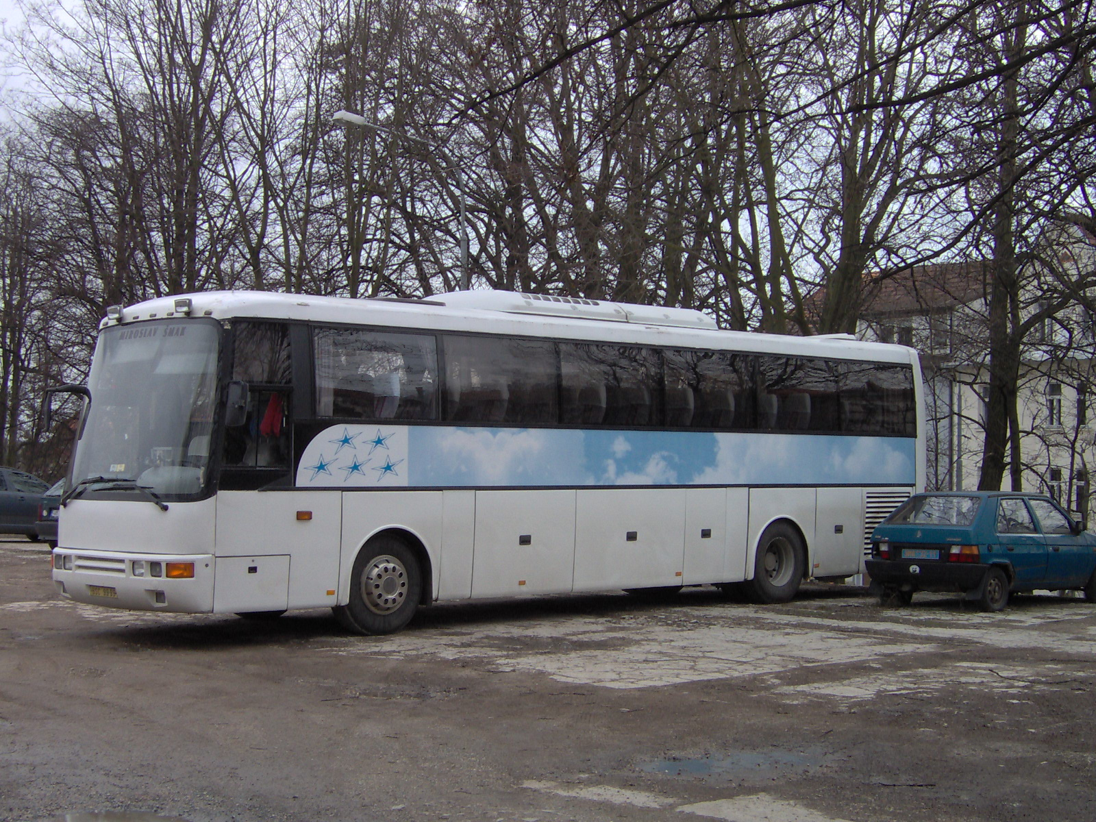 Karosa LC 757 (HD 12) bus in Brno